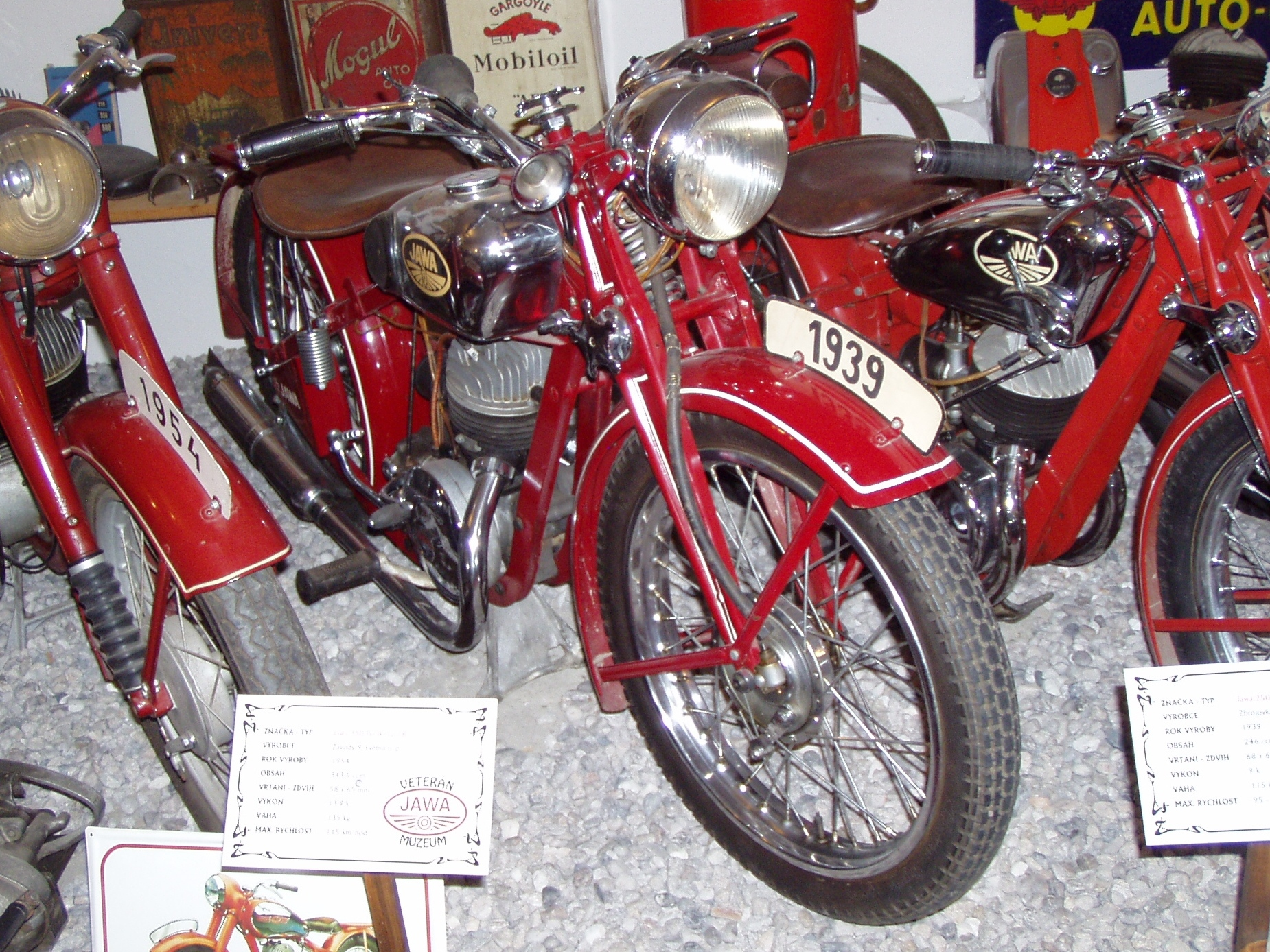 Jawa 250 Mountain Type (1939)